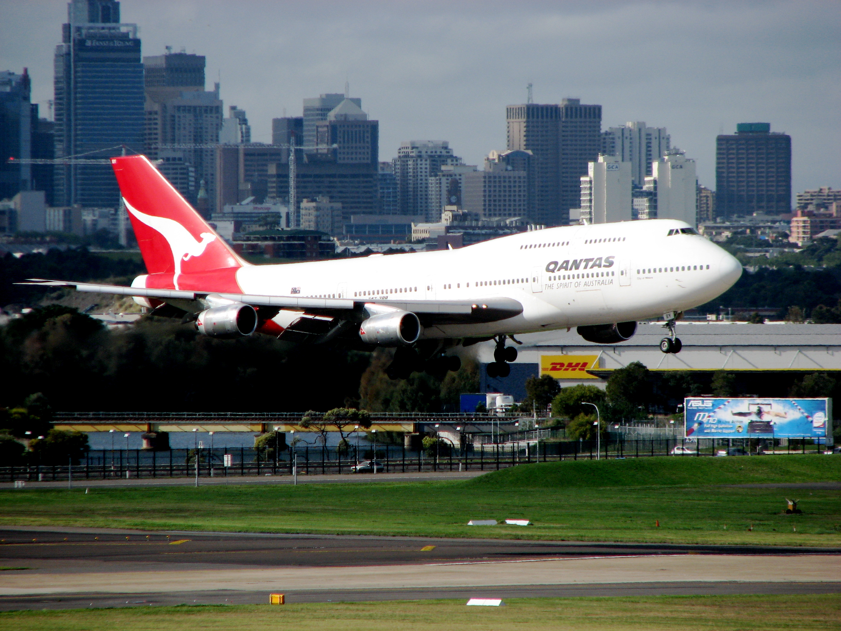 Qantas 747 landing at Sydney Airport.